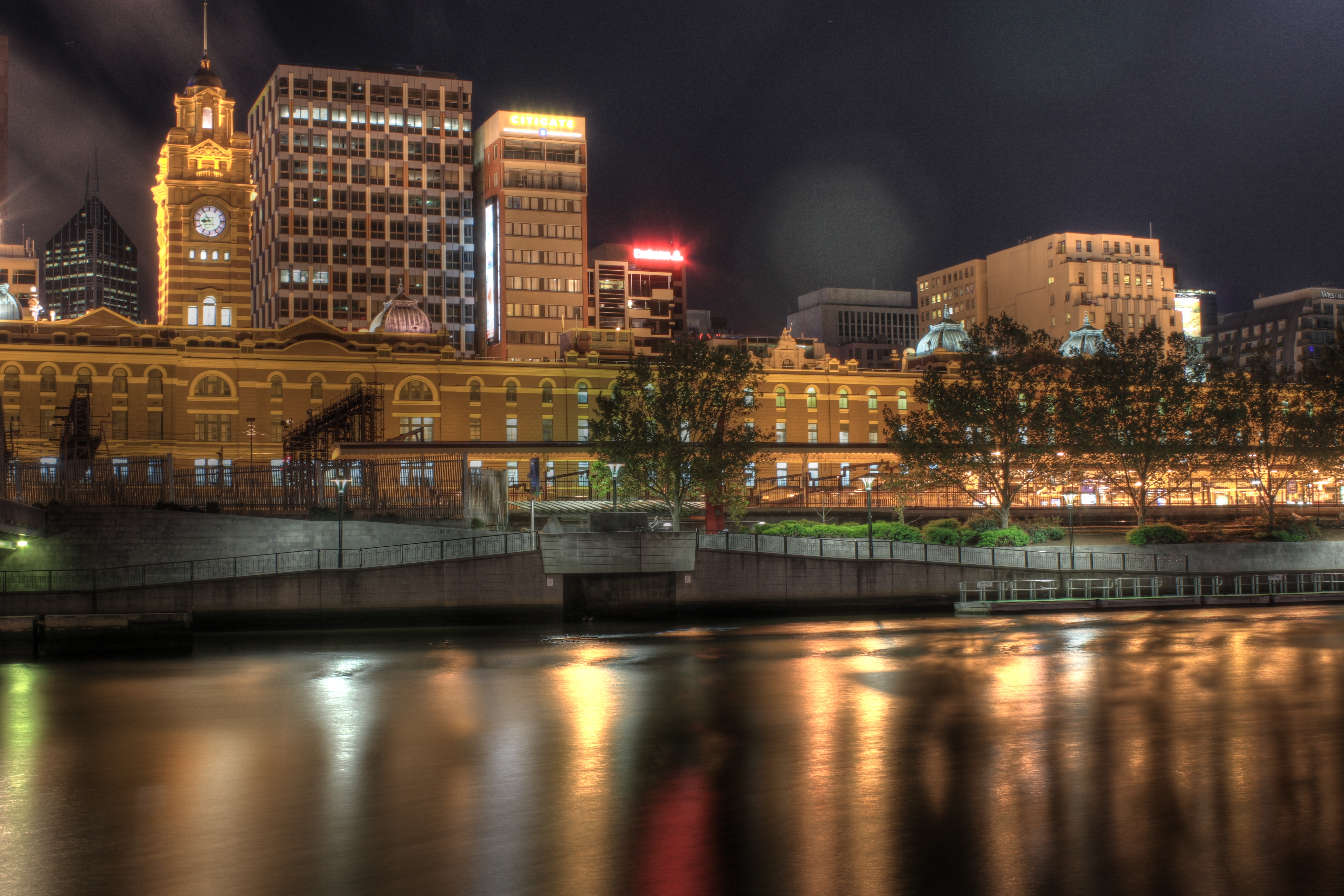 Flinders Street Station, Melbourne, as seen from the Yarra River at night.